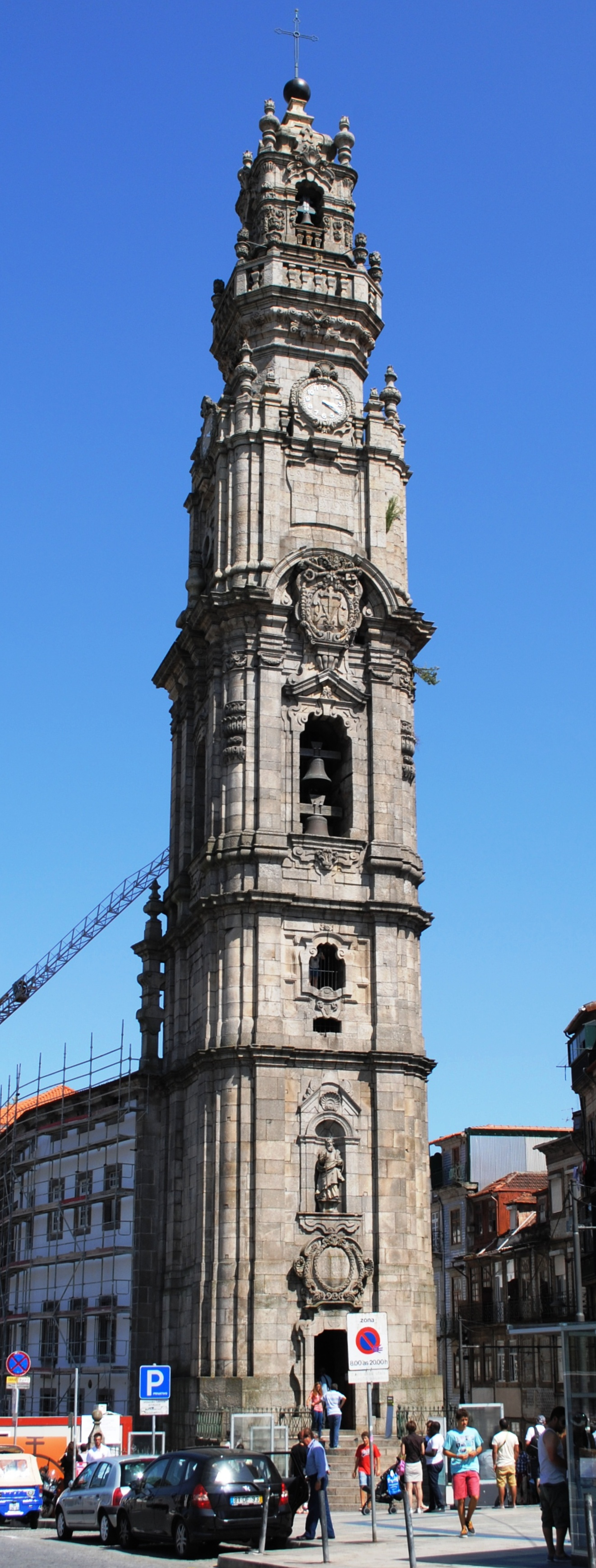 See title and categories.